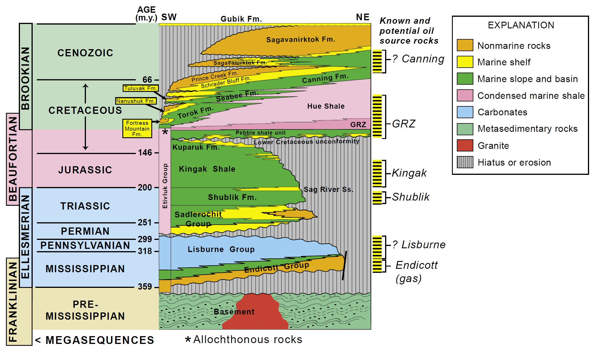 This is a stratigraphic column of the Alaskan North Slope from U.S. Geological Survey Professional Paper 1732–A